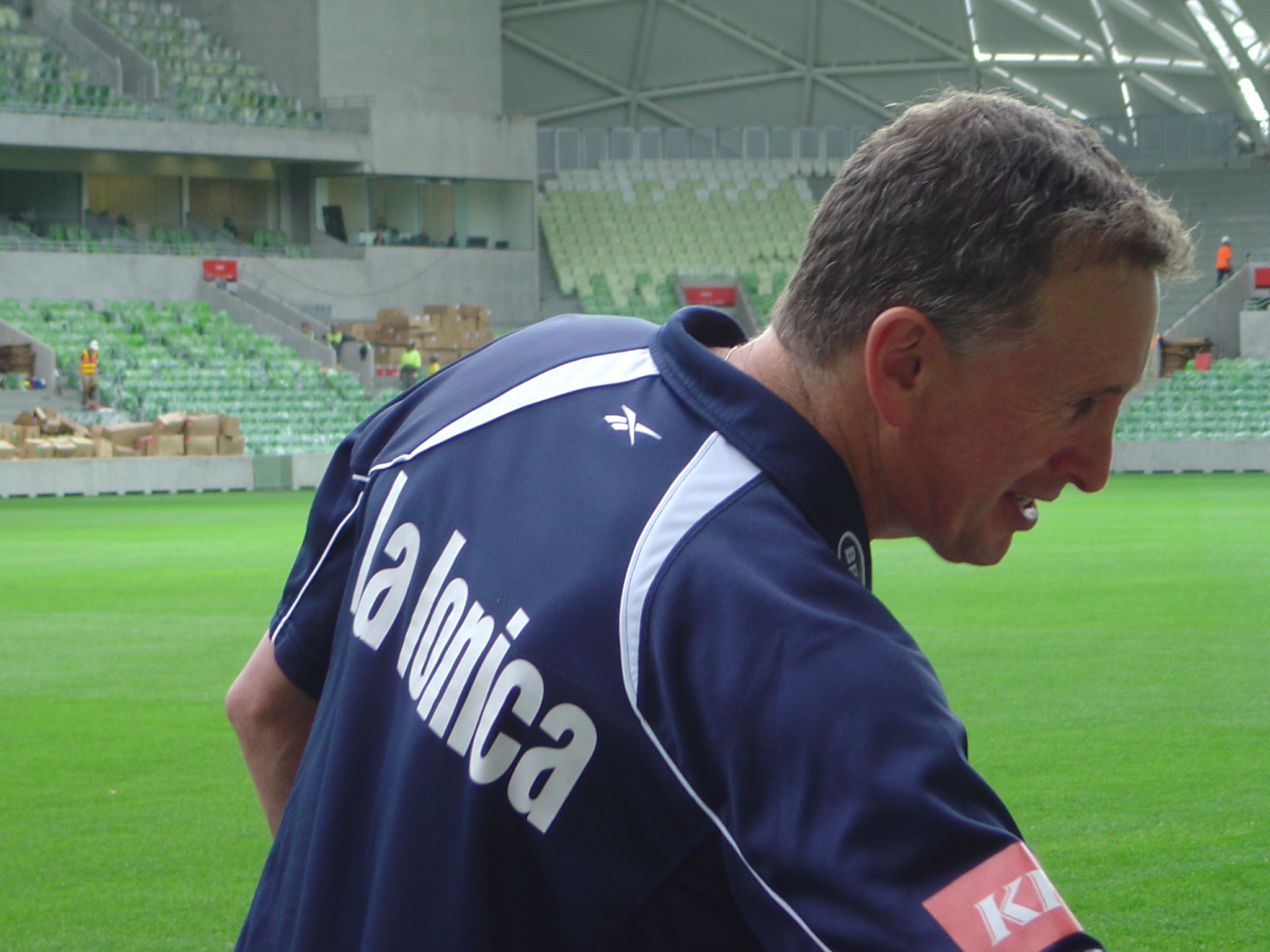 New home of Melbourne Victory FC. AAMI Park, 24 April 2010